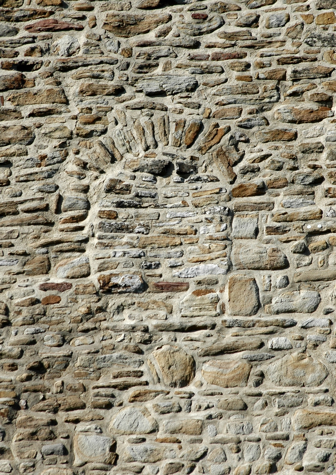 Closed opening of a romanic window of Altendorf Castle